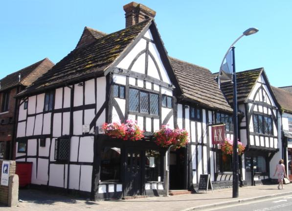 The Ancient Priors, High Street, Crawley, West Sussex, England. 15th-century timber-framed house with various later additions. Listed at Grade II* by English Heritage (ref #363347)